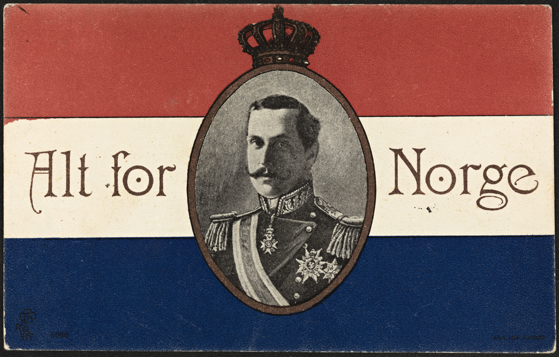 Tittel / Title: Alt for Norge / All for Norway Motiv / Motif: Postkort. "Alt for Norge" var Kong Haakon VIIs valgspråk. "All for Norway" was Kong Haakon VII's slogan. Dato / Date: 1905 Fotograf / Photographer: ukjent / unknown Utgiver / Publisher: Peter Alstrups Kunstforlag, 1906 Eier / Owner Institution: Nasjonalbiblioteket / National Library of Norway Lenke / Link: Bildesignatur / Image Number: blds_04729